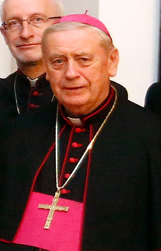 Ludwig Schwarz, bishop of Linz, in 2014